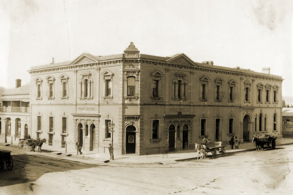 A two-storey hotel on a prominent street corner in Adelaide. It was demolished in 1910 to make way for the Grand Central Hotel